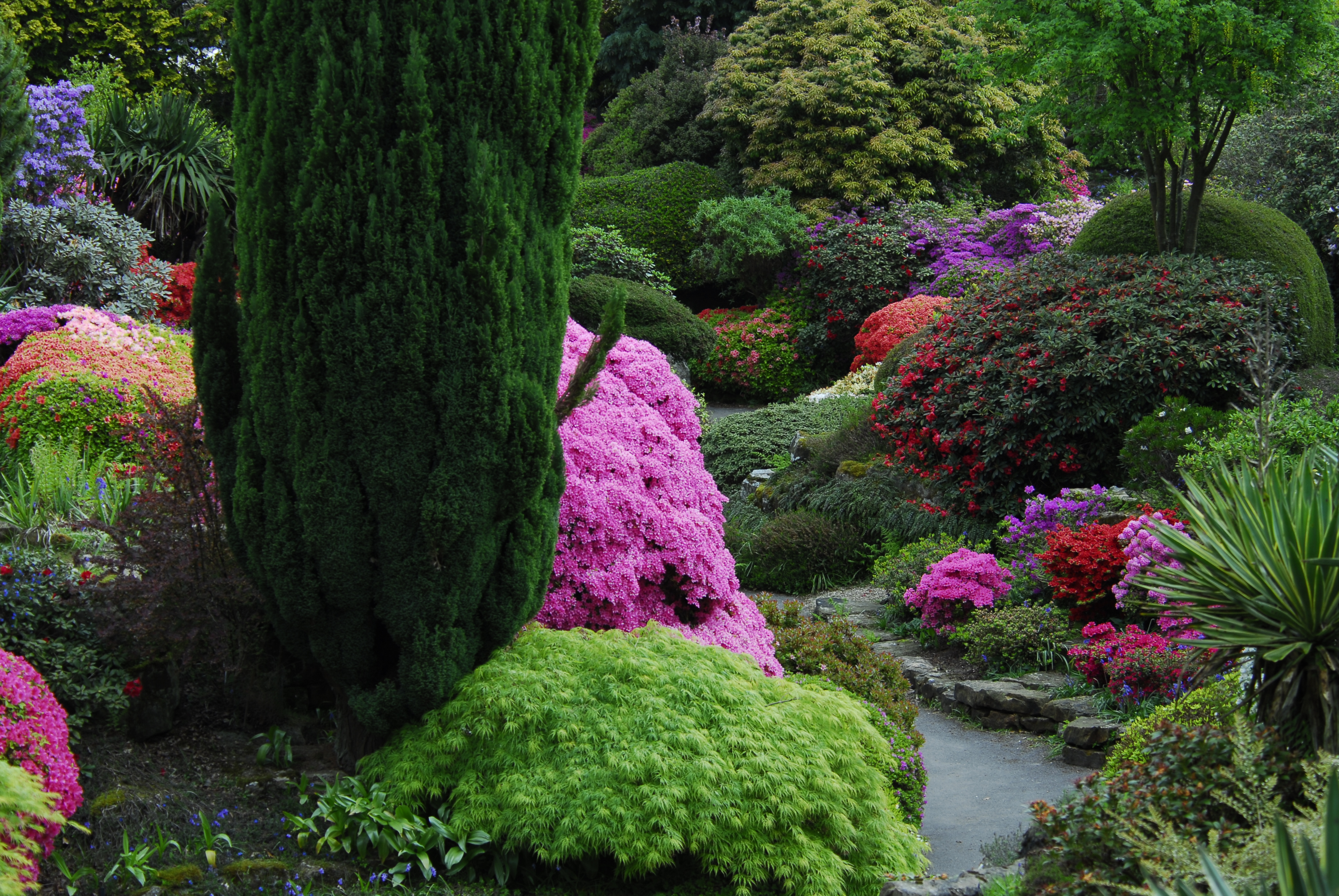 The rock gardens in May at Leonardslee, West Sussex.